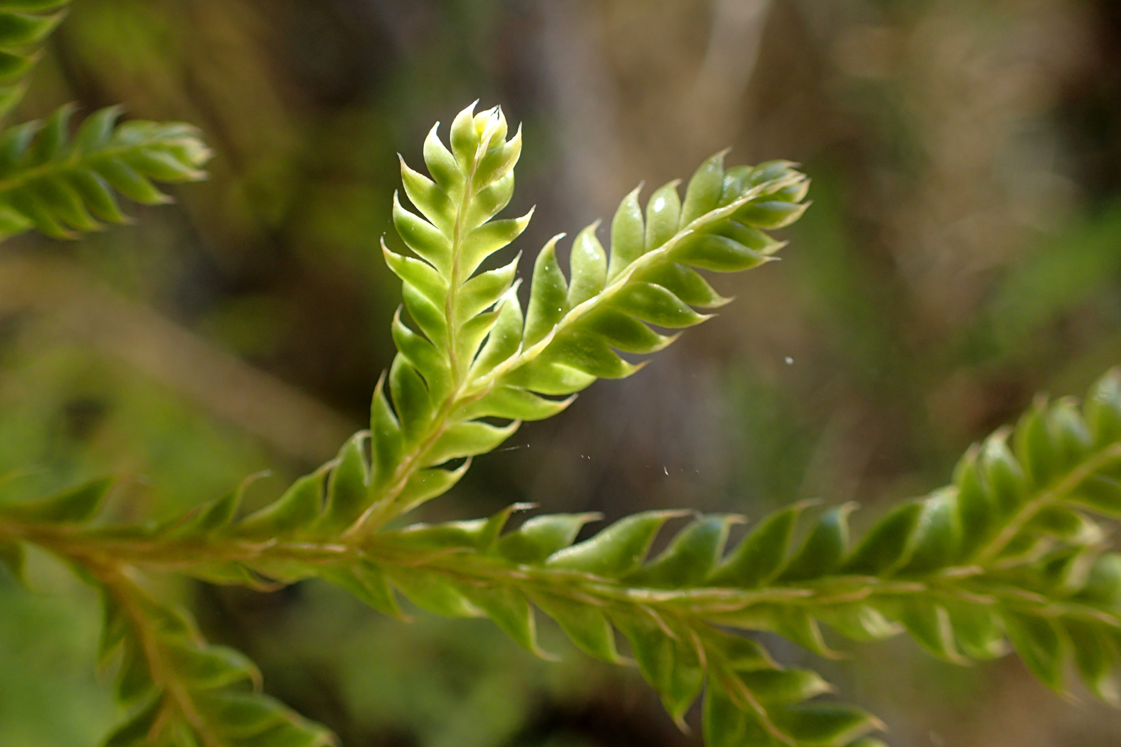 Lycopodium volubile in Totaranui, Tasman (New Zealand)